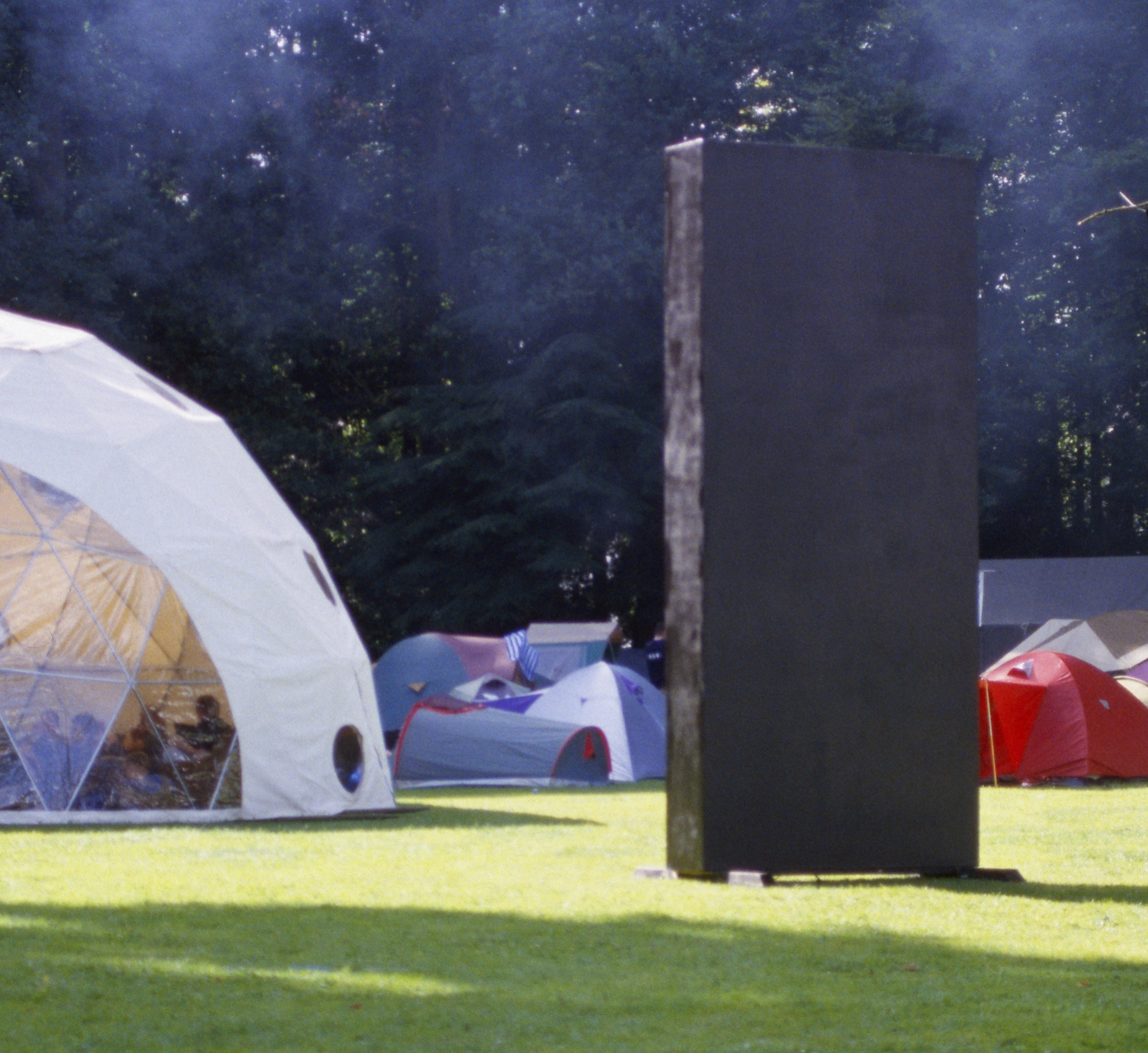 Enschede, The Netherlands: Monolith as displayed at the "Hackers at Large" conference at the University of Twente. The monolith has been erected by the German hacker group CCC